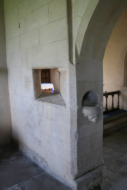 St Nicholas' parish church, Walcot, Lincolnshire: squint or hagioscope, in north aisle chapel. (an angled hole through a wall from an aisle to the chancel to give a view of the main altar)